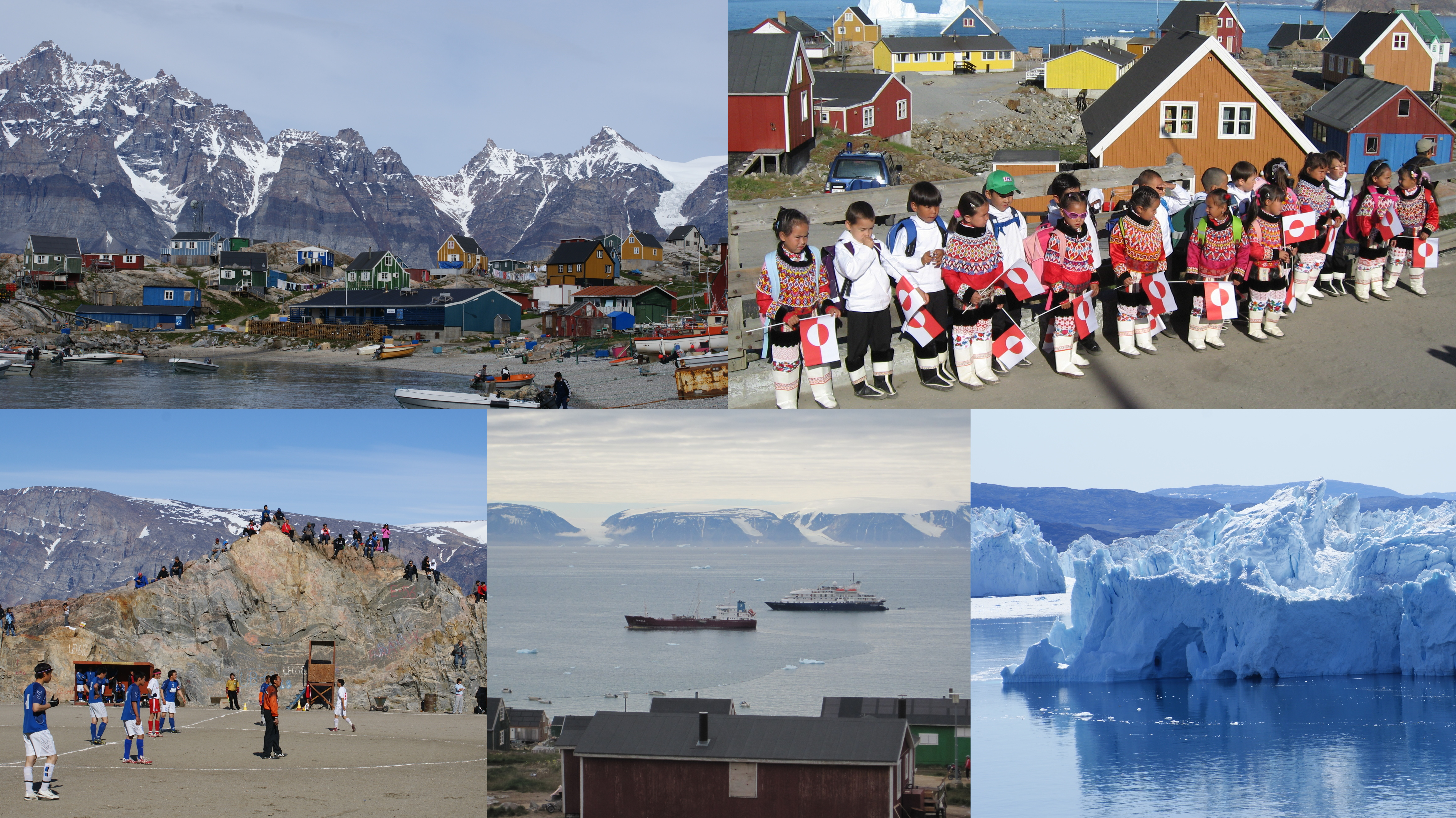 Montage of photographs from the Avannaata Municipality, Greenland. This file is the same as Qaasuitsup-montage.jpg but with Qaanaaq represented as well. top left: Ukkusissat top right: First day at school in Upernavik bottom left: Football match in Uummannaq bottom middle: Boats off Qaanaaq bottom right: Ilulissat Icefjord